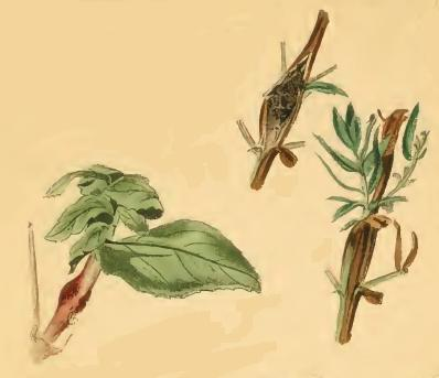 Stainton’s Natural History of the Tineina (1855–1873): Carpatolechia decorella stems of Epilobium with gall-like swellings caused by the larvae